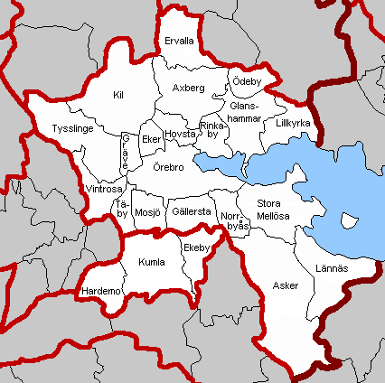 old municipalities of Oerebro and Kumla